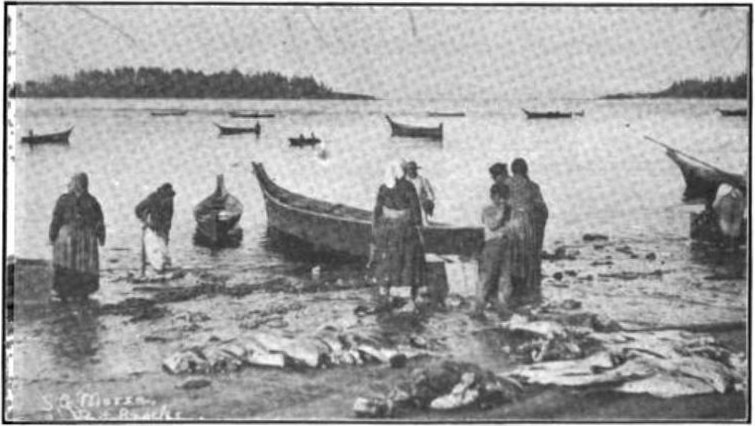 Original caption: "Indian Halibut Fishers on Neah Bay, Washington." Given the location, I presume these are Makah people.